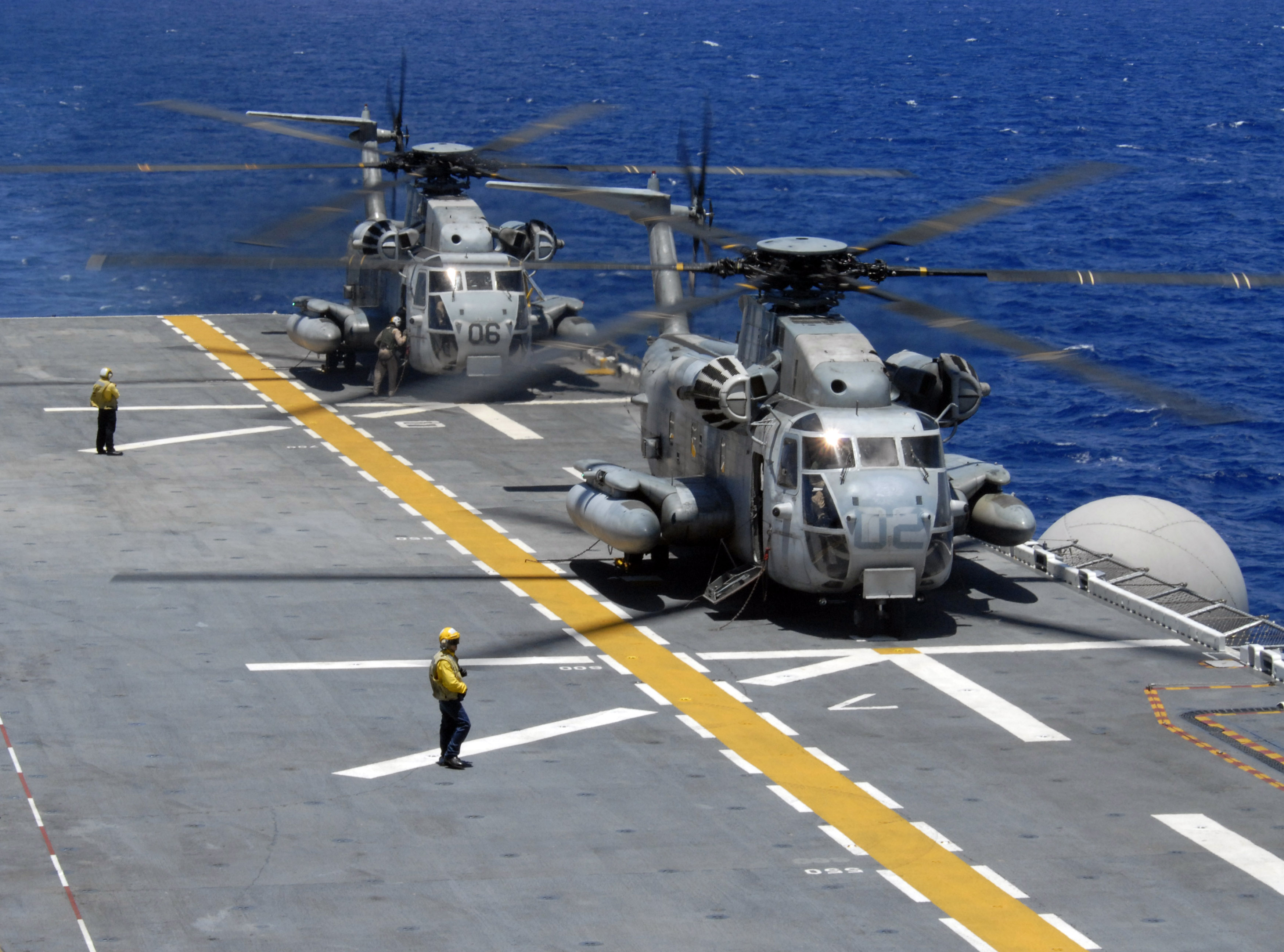 KAUAI, Hawaii (July 11, 2008) Two CH-53 Sea Stallions assigned to Marine Heavy Helicopter Squadron (HMH) 362 idle on the flight deck of the amphibious assault ship USS Bonhomme Richard (LHD 6) after fly-on exercises during Rim of the Pacific (RIMPAC) 2008. RIMPAC is the world's largest multinational exercise and is scheduled biennially by the U.S. Pacific Fleet. Participants include the U.S., Australia, Canada, Chile, Japan, Netherlands, Peru, Republic of Korea, Singapore, and the United Kingdom. (U.S Navy photo by Mass Communication Specialist 2nd Class Scott Taylor/Released)